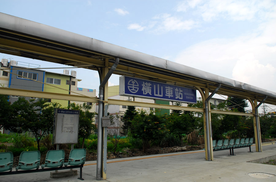 HengShan Station is a local train station on NeiWan Line, a branch line of TRA. It's the main station of HengShan Township, HsinChu County.